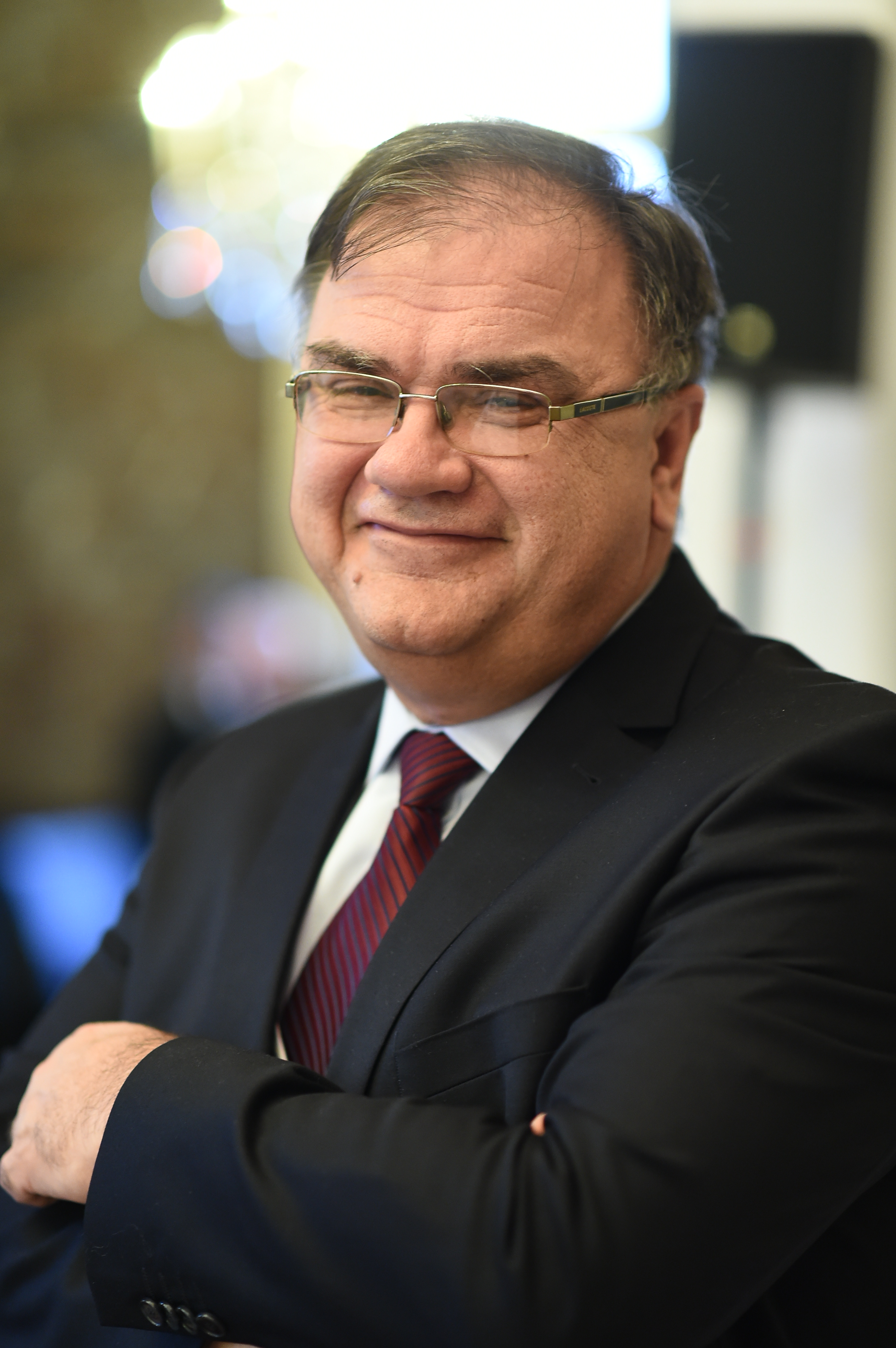 Mladen Ivanić's portrait from 18 December 2014, made in Brussels during the EPP summit